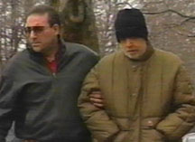 This is an FBI surveillance photograph of deceased Genovese family boss, Vincent Gigante (right), on the streets of Greenwich village, and being led by one of his sons Andrew. This was part of his daily routine of pretending to be mentally ill.